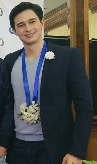 Ivan Dorschner at the Meant to Be production presentation, November 2016